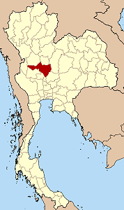 Map of Thailand highlighting Nakhon Sawan province